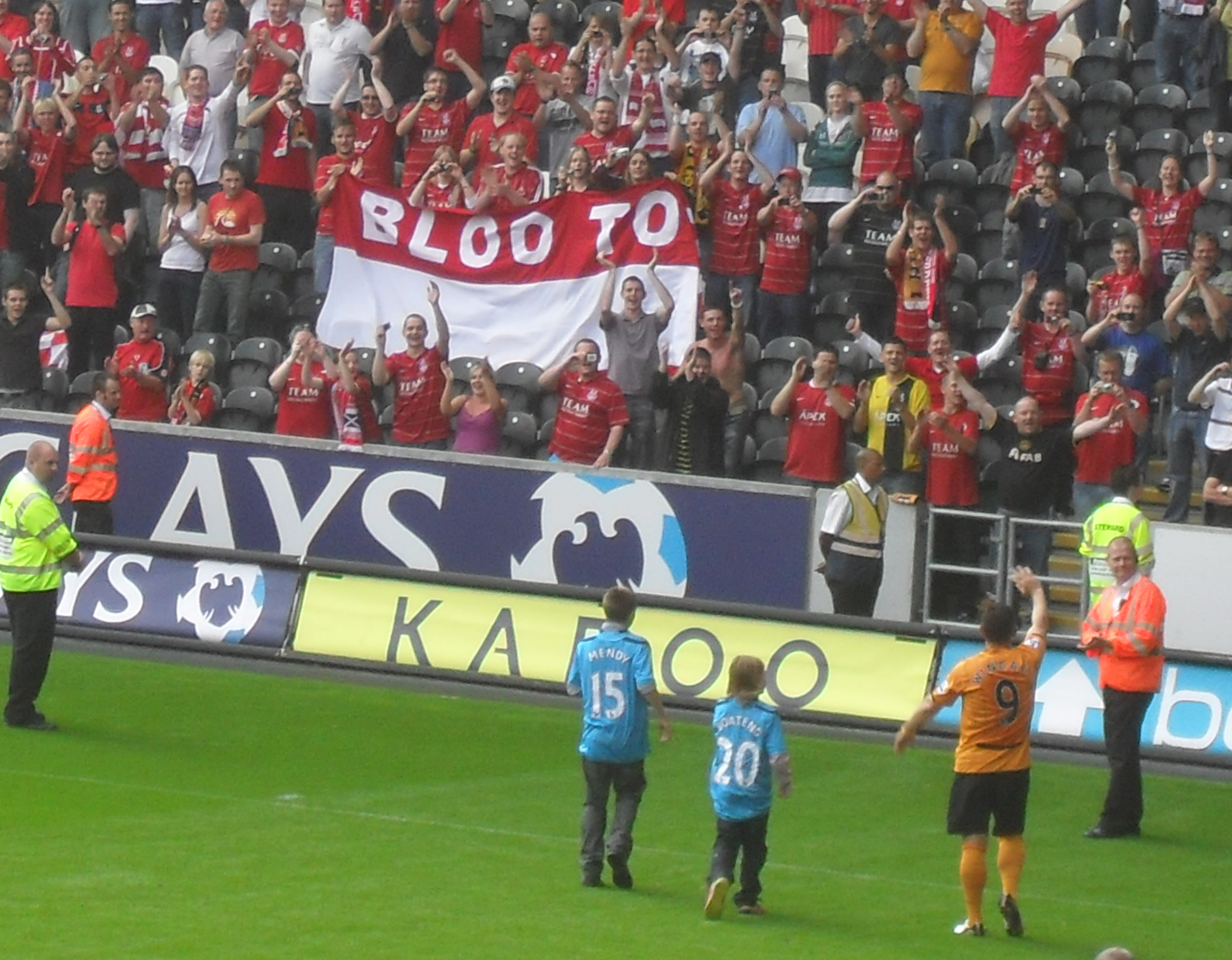 Dean Windass